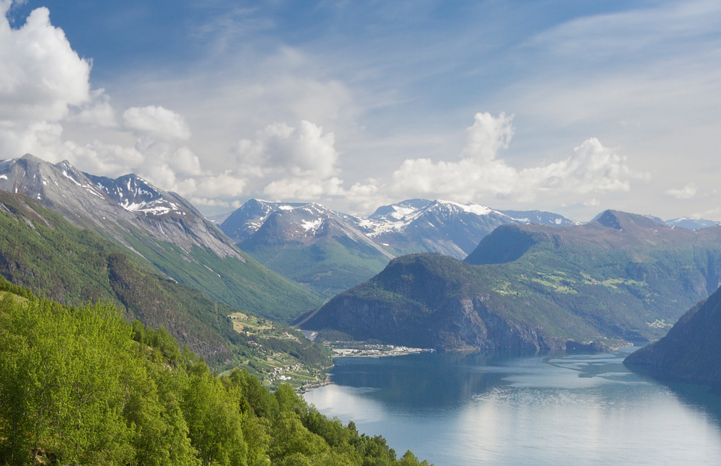 A view towards Norddalsfjorden from a mountain hillside near Kilsti in Norddal, Møre og Romsdal, Norway in 2013 June.